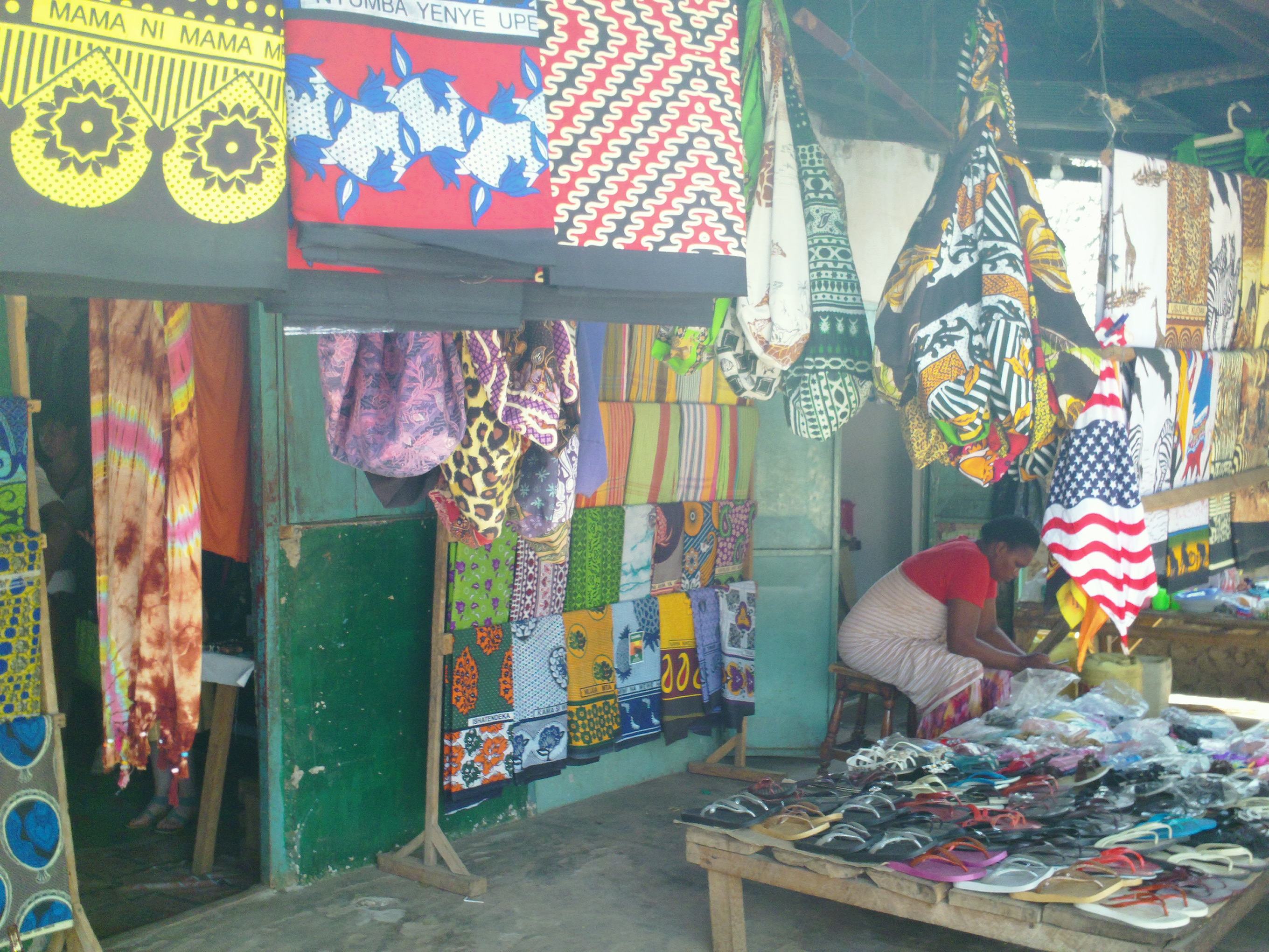 Shikoo's Shop; one of many that are stationed alongside the main road.